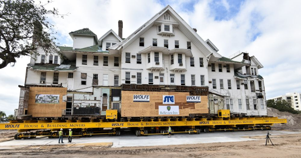 Wolfe House & Building Movers uses the Buckingham Power Dolly System to move the Belleview-Biltmore Hotel in Clearwater, Florida (December 2016).